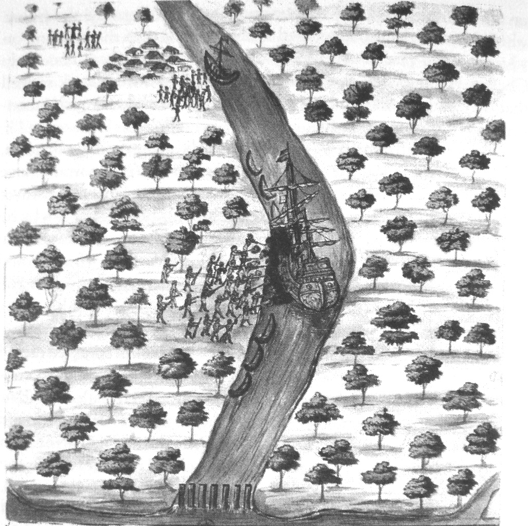 Siamese attack on du Bruant in Tavoy.